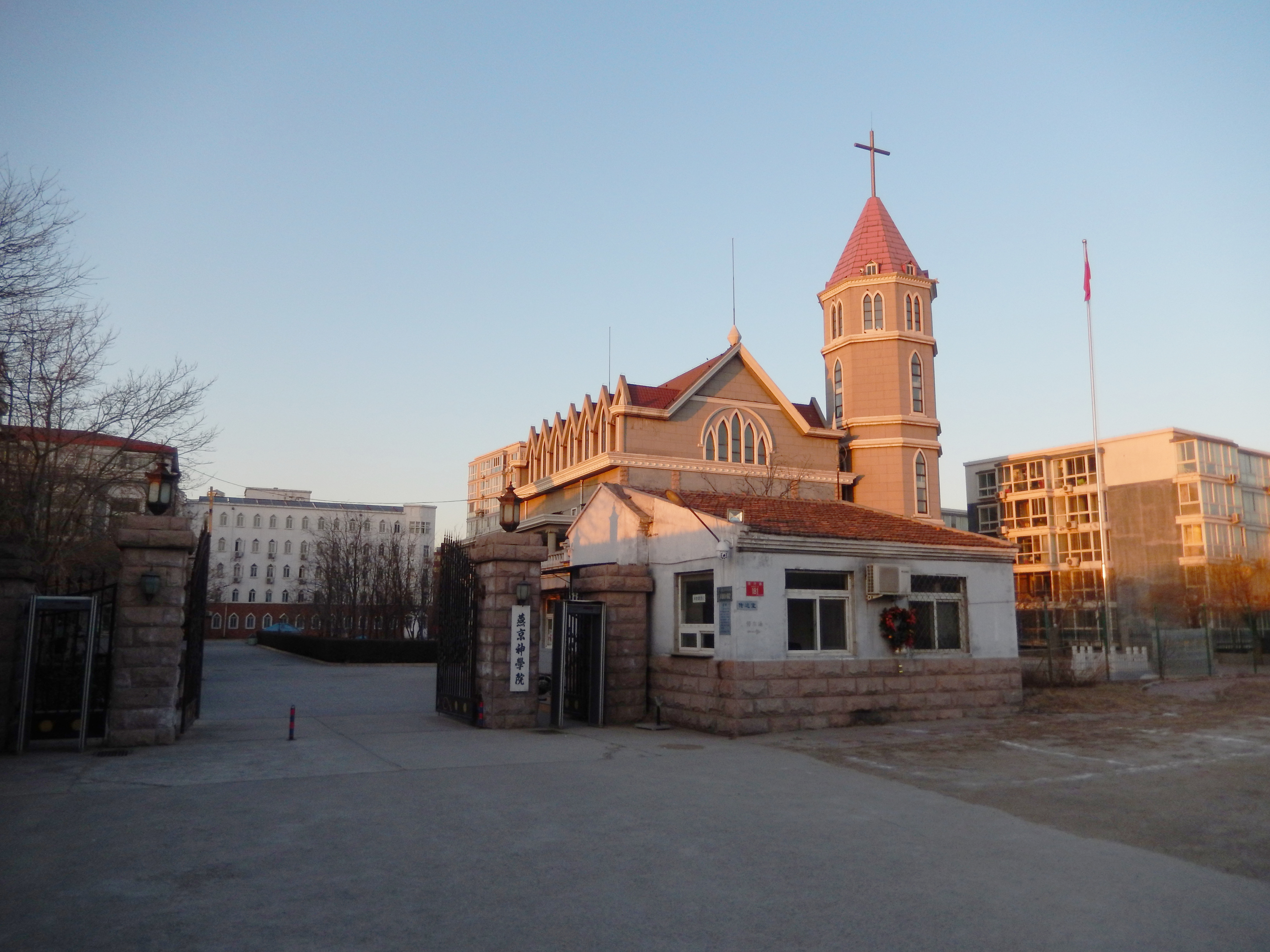 Yanjing Theological Seminary, located in Qinghe, Haidian District, Beijing, China.